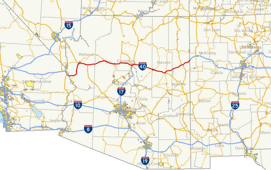 Map of Interstate 40 in Arizona